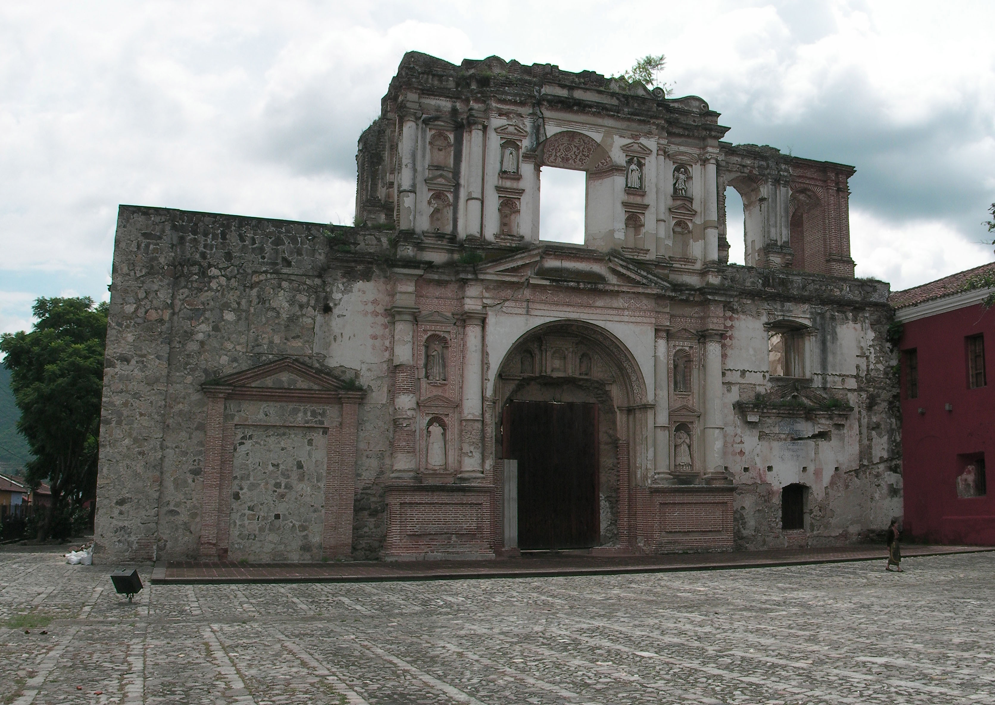 Jesuit Church in Antigua, Guatemala. The Jesuits were expelled from Antigua in 1767. The church was inaugurated in 1626 and suffered subsequent earthquake damage. Today is used as Centro de Formación de la Cooperación Española en La Antigua Guatemala